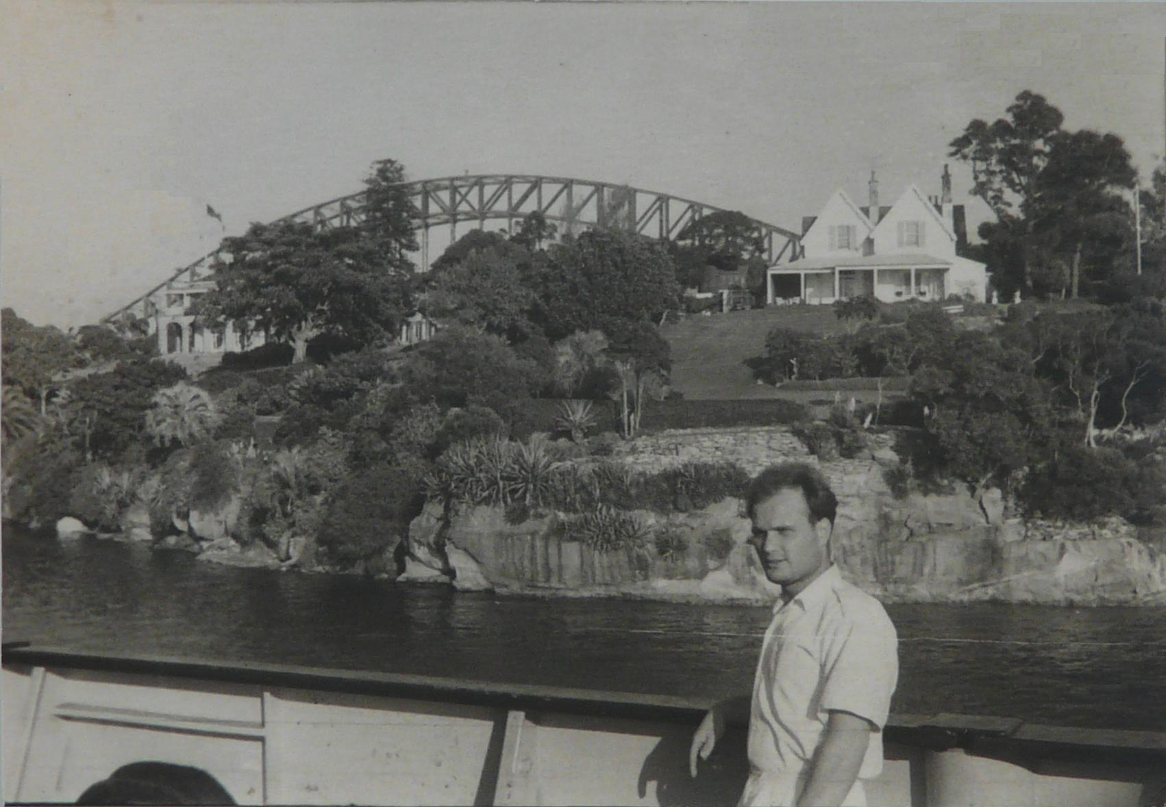 Soviet Union dry cargo vessel Metallurg Anosov at Sidney. Port Sydney Bridge behind. Photo maden by chief motorman of the vessel Grishchuk Nikolay (Грищук Н.А.) on the 04 of April, 1964. On the photo Grishchuk Nikolay - it is self-photo using authomatic soviet photo-camera "ФЭД-2".